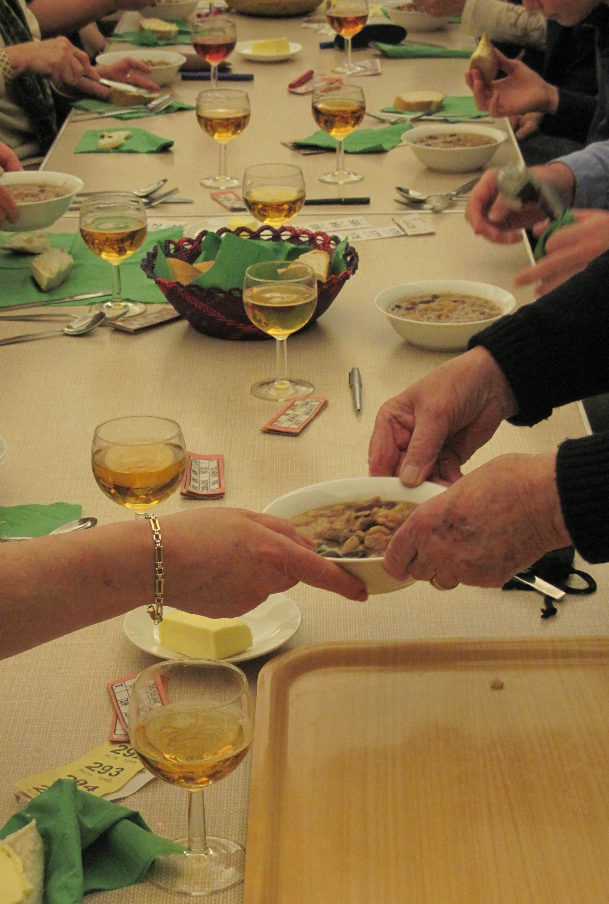 Jersey bean crock and cider